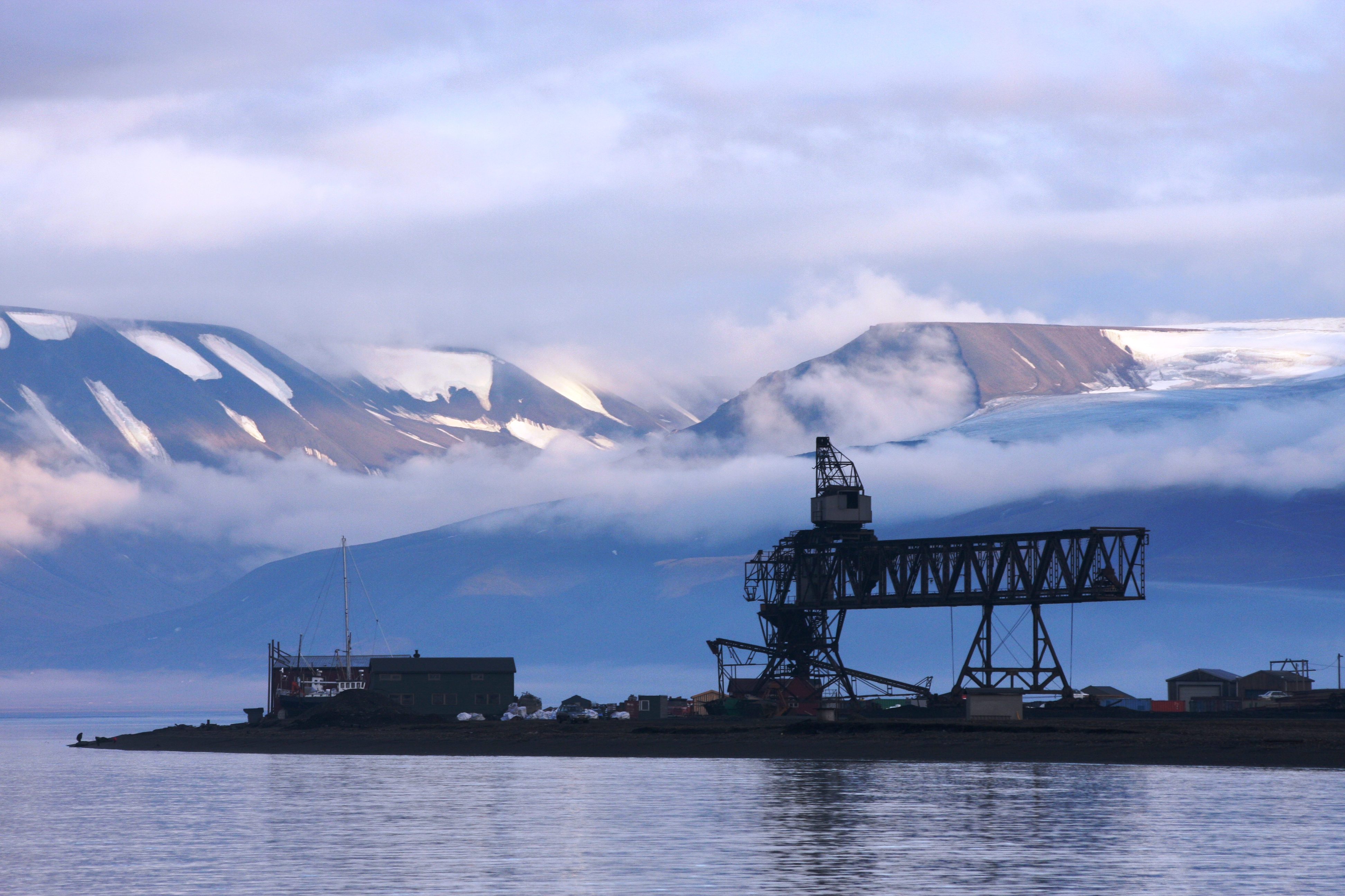 Hotellneset coal harbour area, Longyearbyen, Svalbard. Older than 1946, the interwar installation is automatically protected as a cultural heritage site.